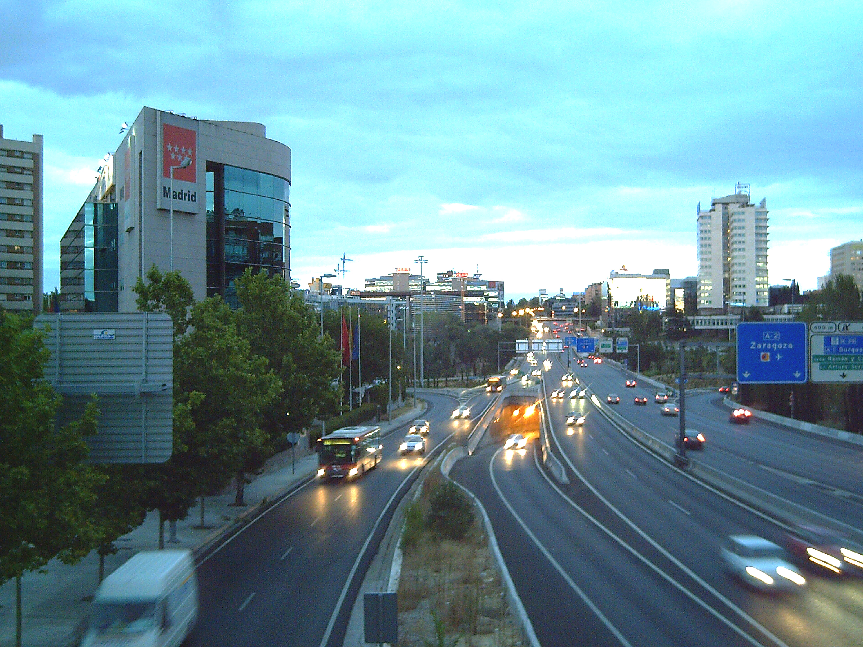 Avenida de América (an avenue) in Madrid (Spain).